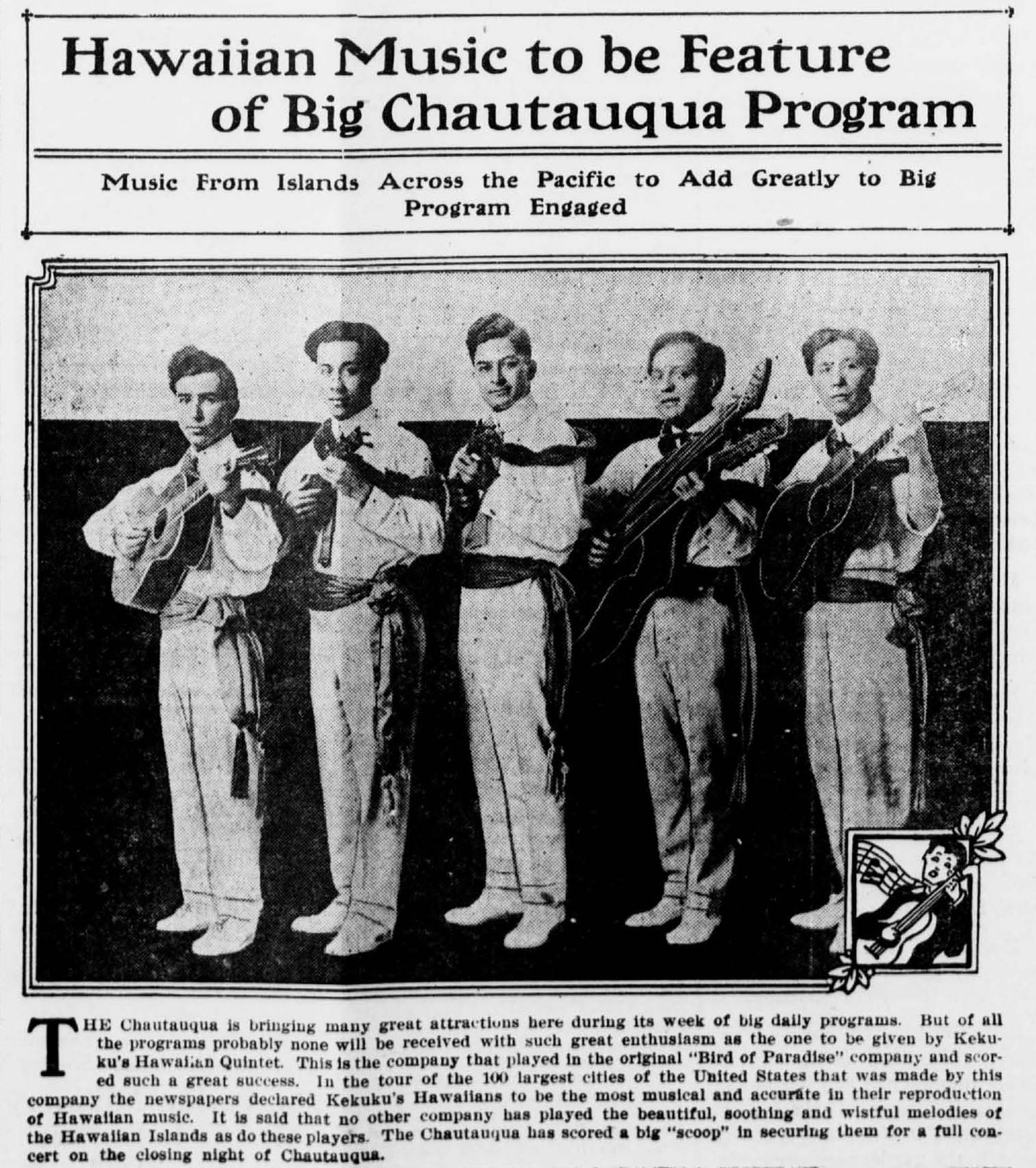 Text: "Hawaiian music to be feature of Big Chautauque program. Music from islands across the Pacific to add greatly to big program engaged. "The Chautauqua is bringing many great attractions here during its week of big daily program ..."